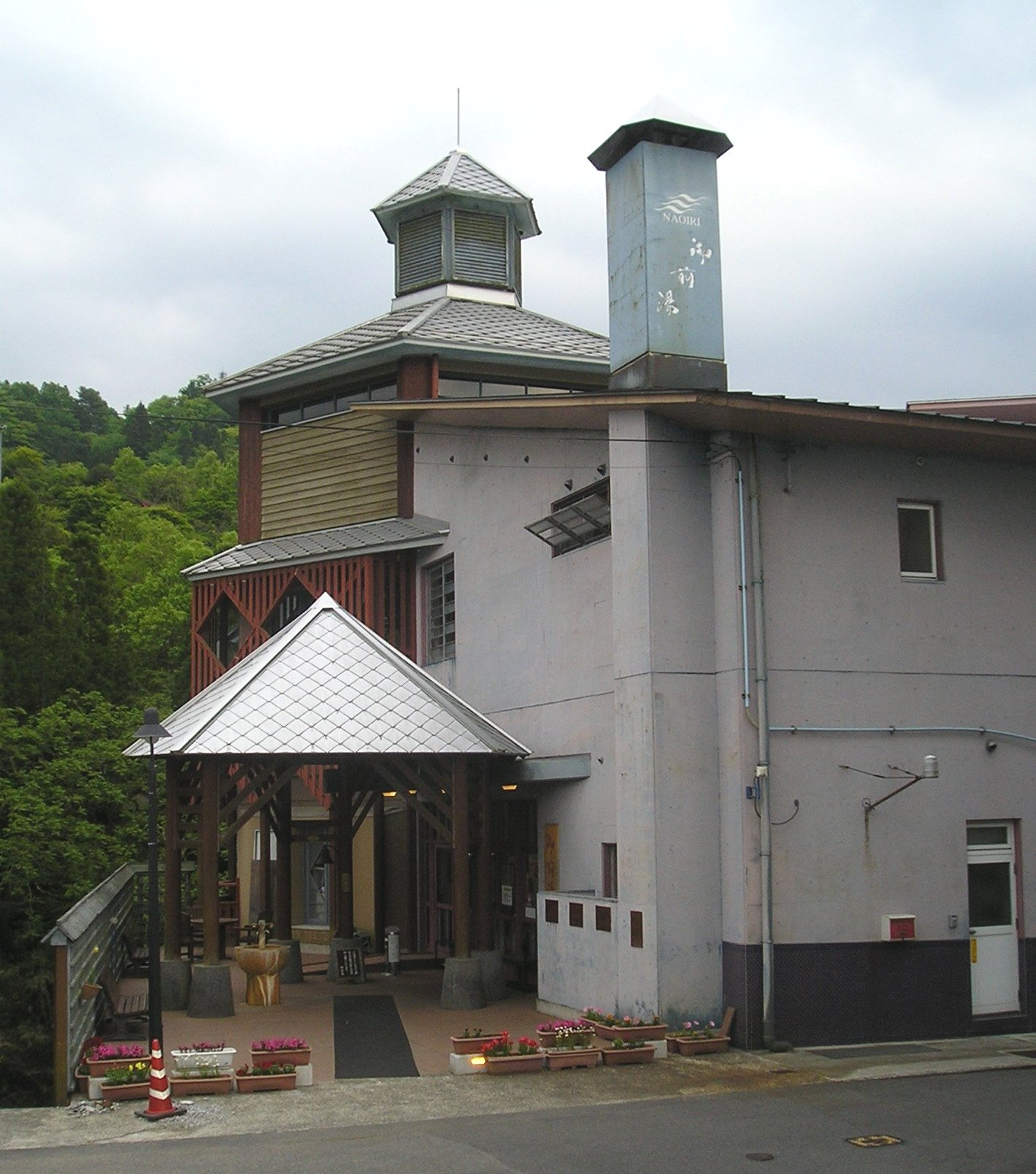 Gozenyu, a German-style public bath at Nagayu Hotsprings, Taketa City, Oita